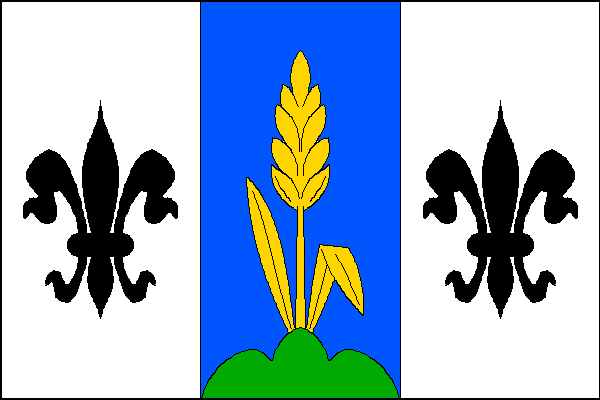 Municipal flag of Slatina village, Klatovy District, Czech Republic.